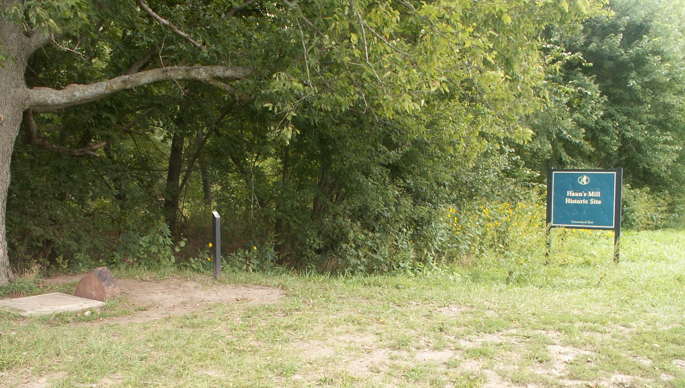 Haun's Mill historic site. Photo by poster in September 2007.